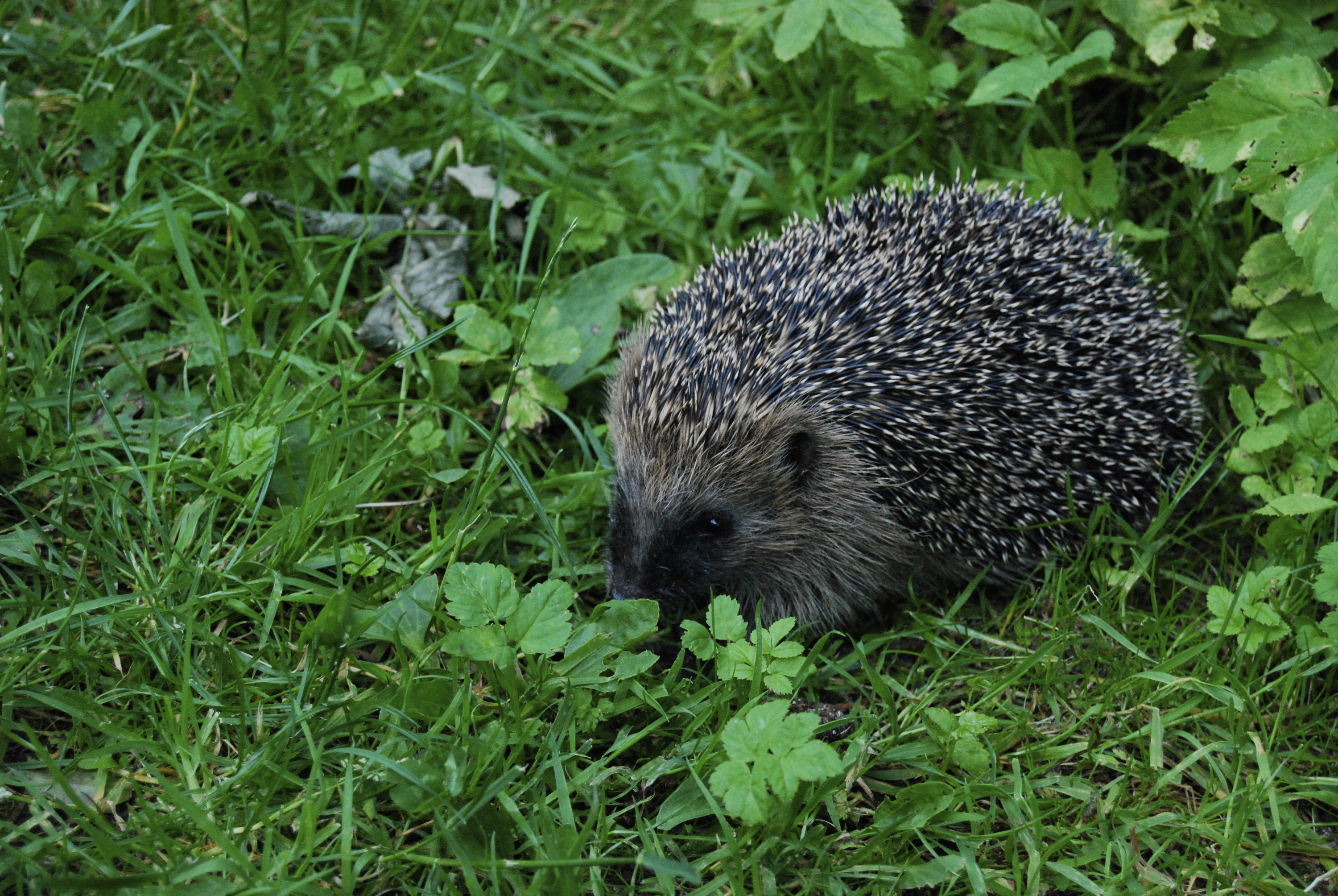 A hedgehog in my garden in Denmark